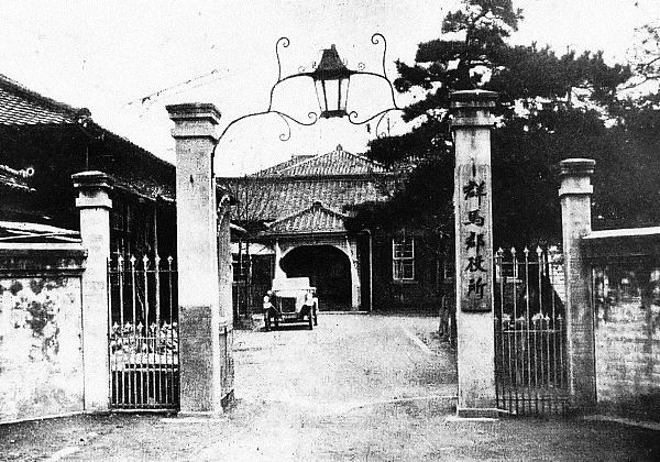 Gunma District Office in Taisho era